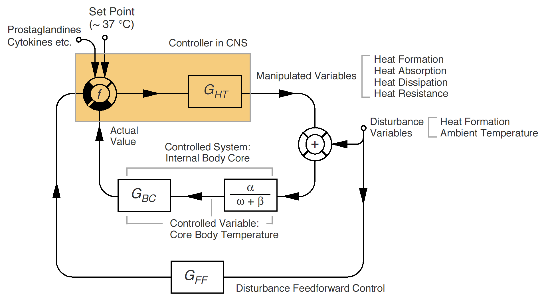 Simplified information processing structure of human thermoregulation